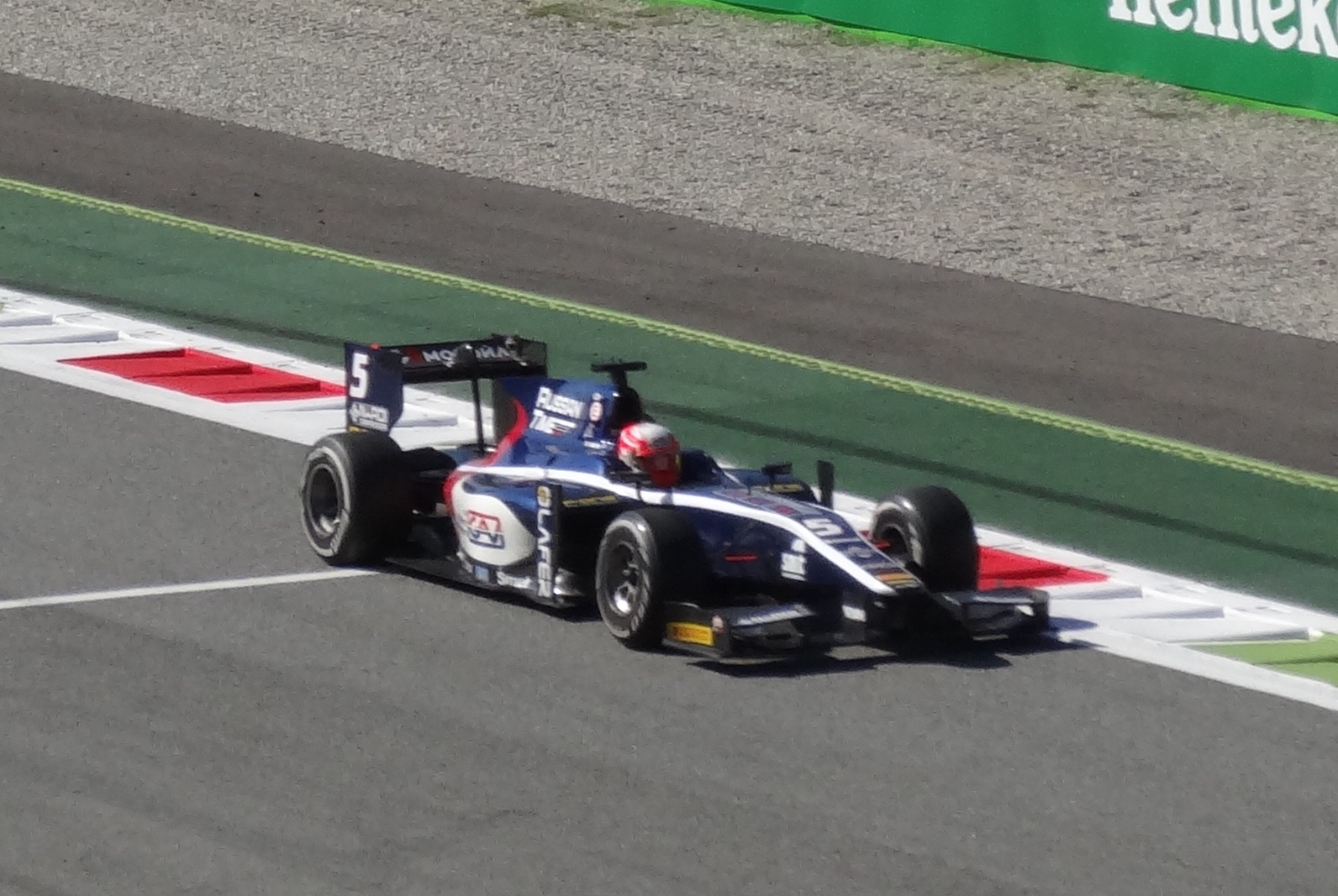 Luca Ghiotto Monza F2 2017